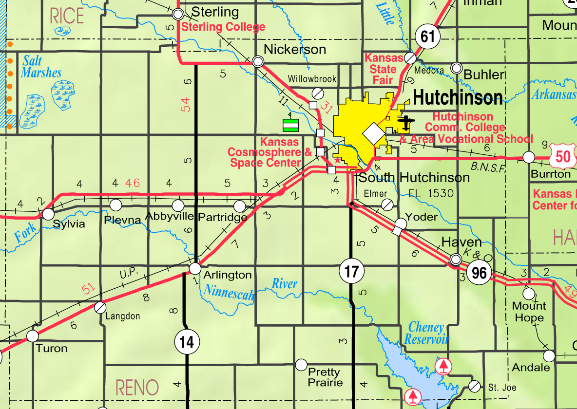 This map of Reno County, Kansas, USA, is copied at a resolution of 300 pixels/inch from the original PDF file.